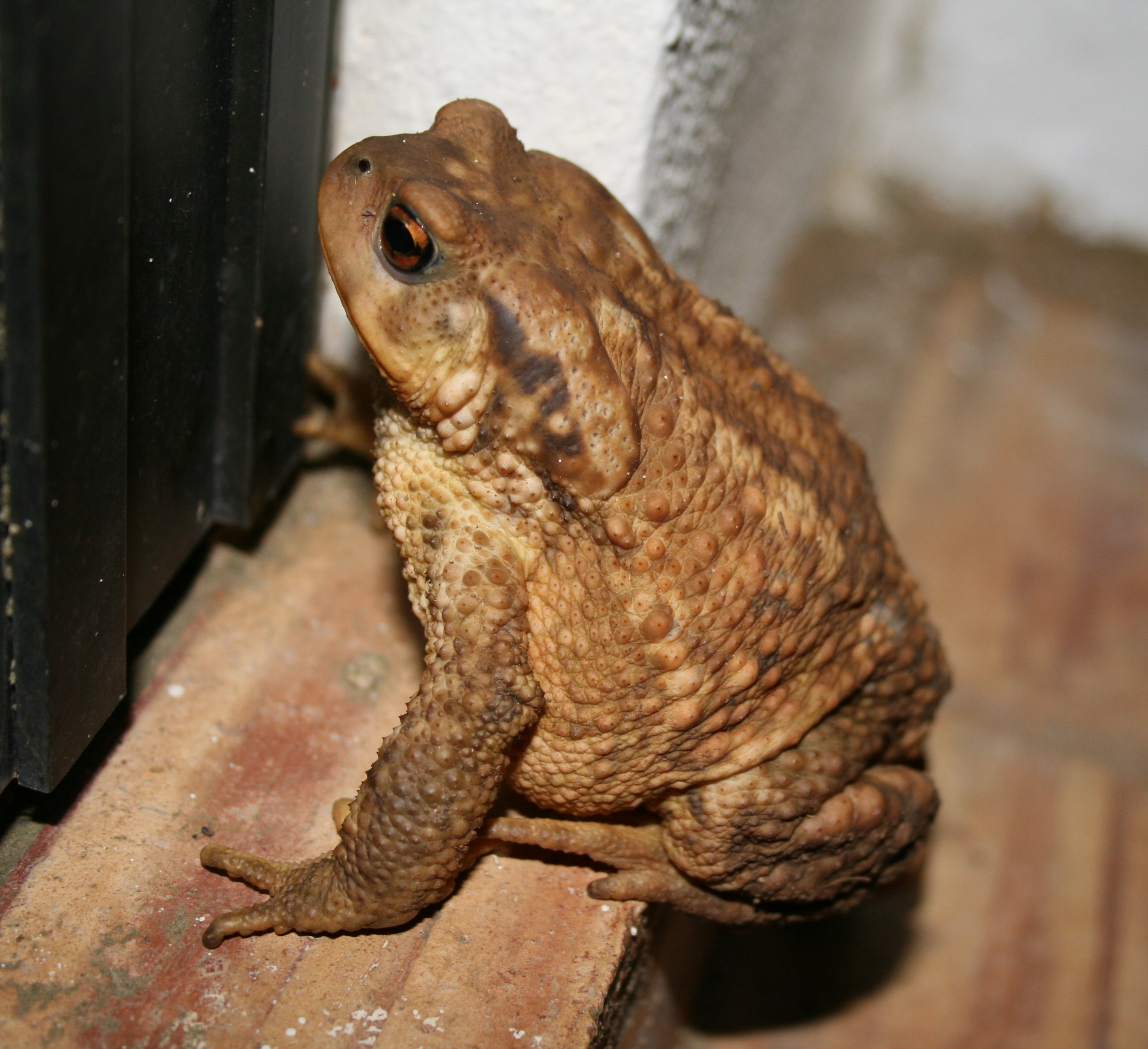 Toad I found on the doorstep at night in Algarve, Portugal.